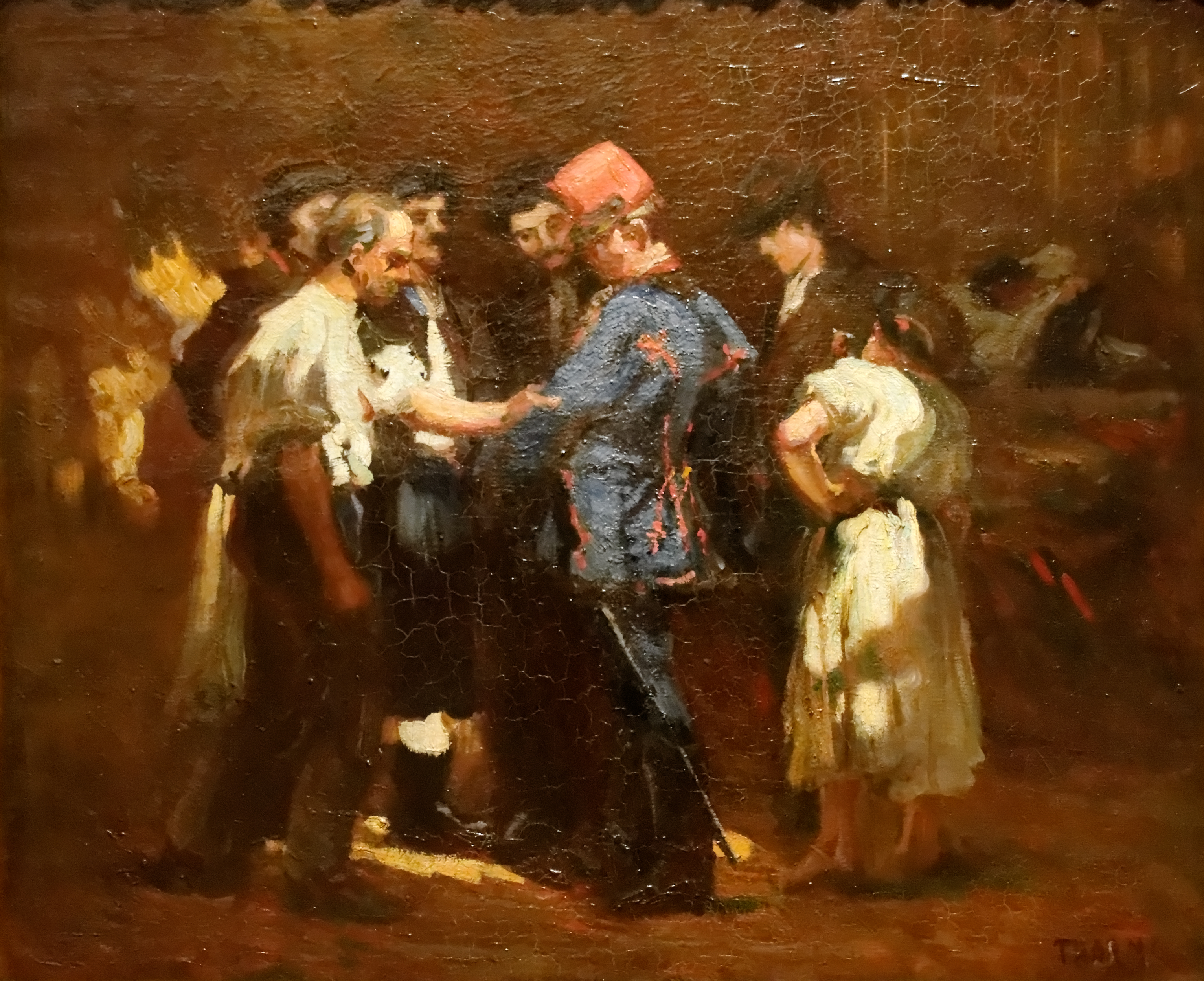 Among Coachmen (1902) by János Thorma (1870-1937)